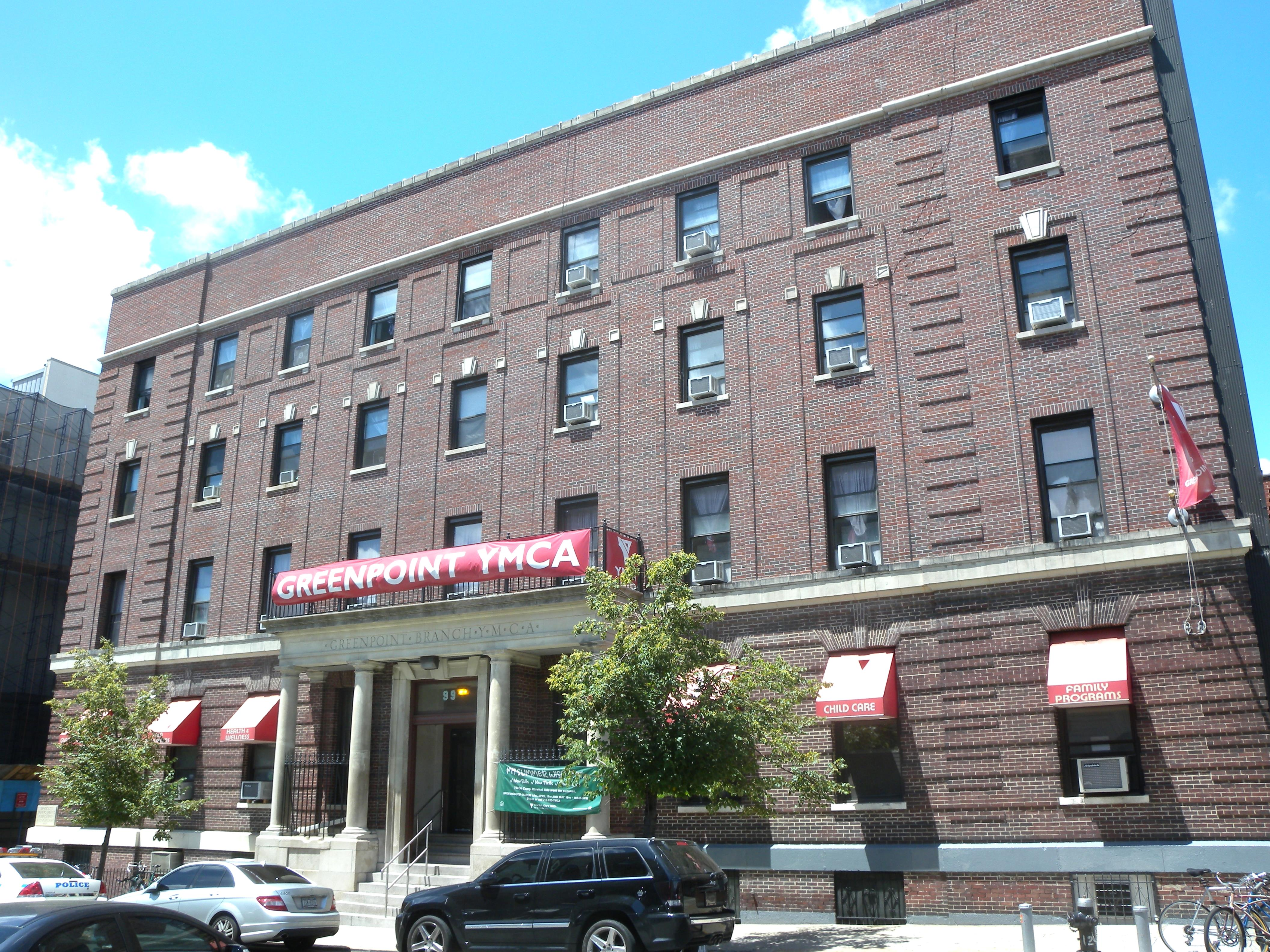 Looking northwest at YMCA on a sunny midday.